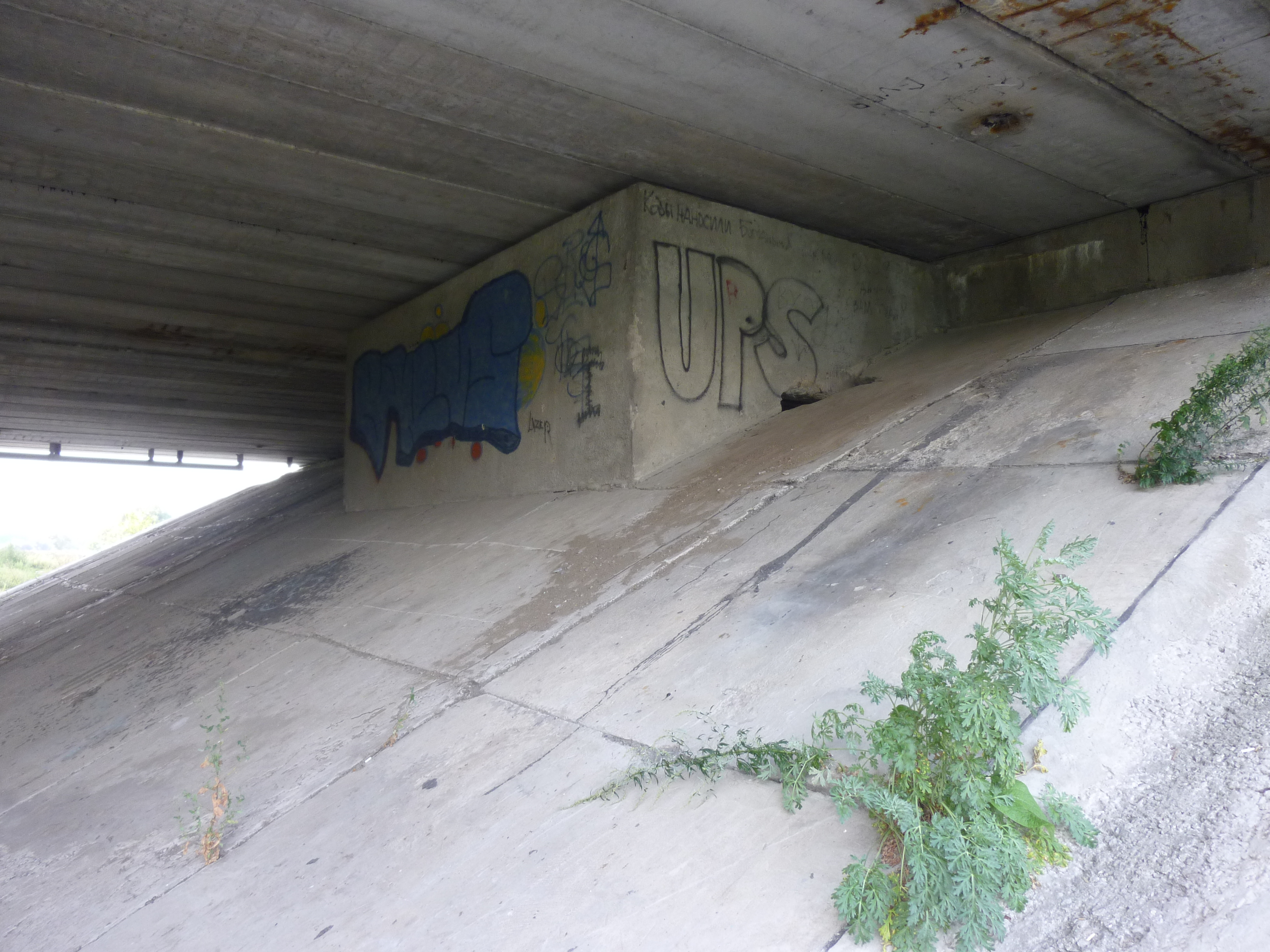 Pillbox 410 (Kyiv Fortified Region)